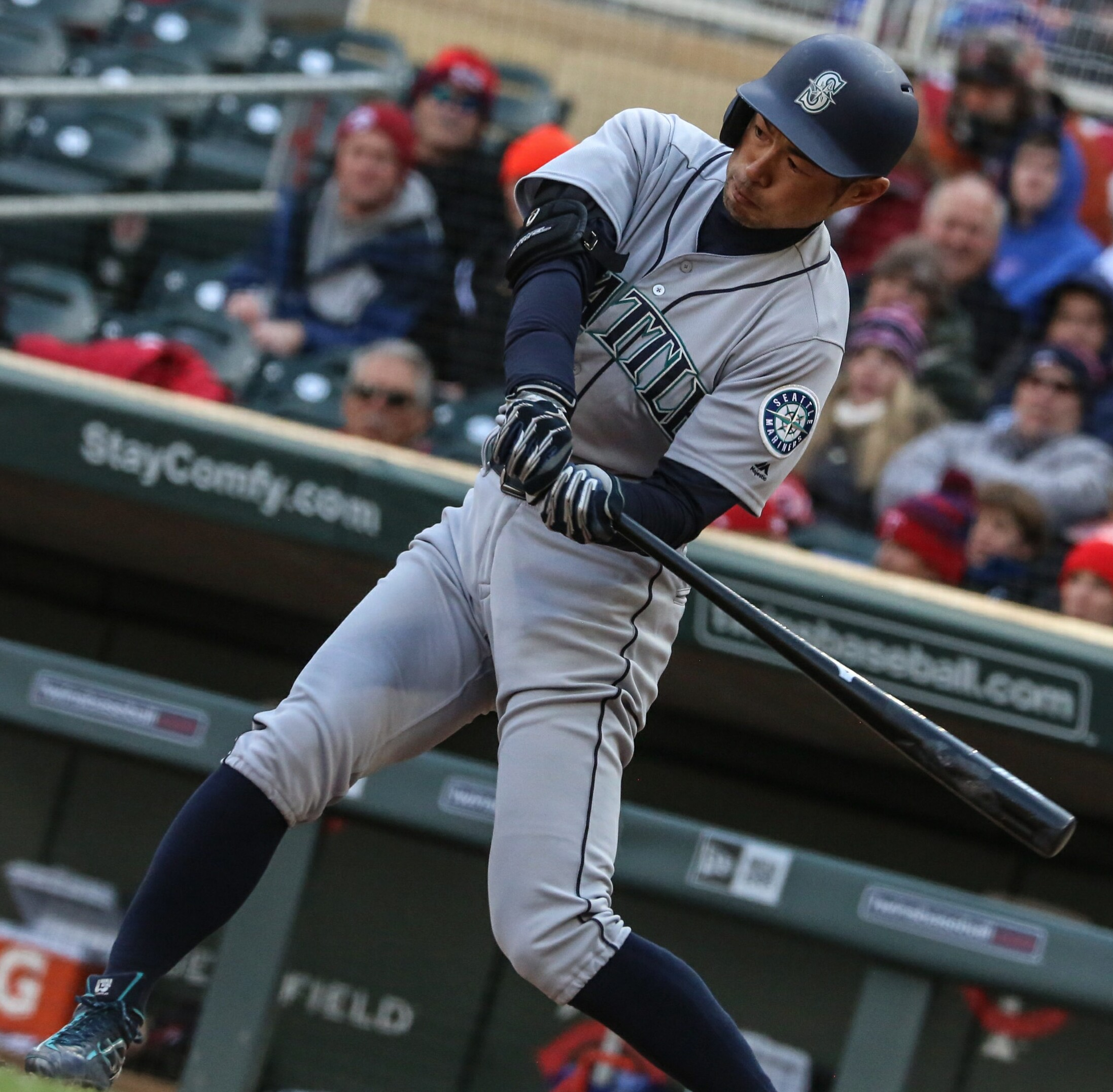 Ichiro Suzuki - Minnesota Twins - Opening Day vs Seattle Mariners